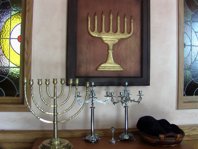 Athens_Synagogue. Credit: Courtesy of Arie Darzi to memorialize the Jewish community in Greece.